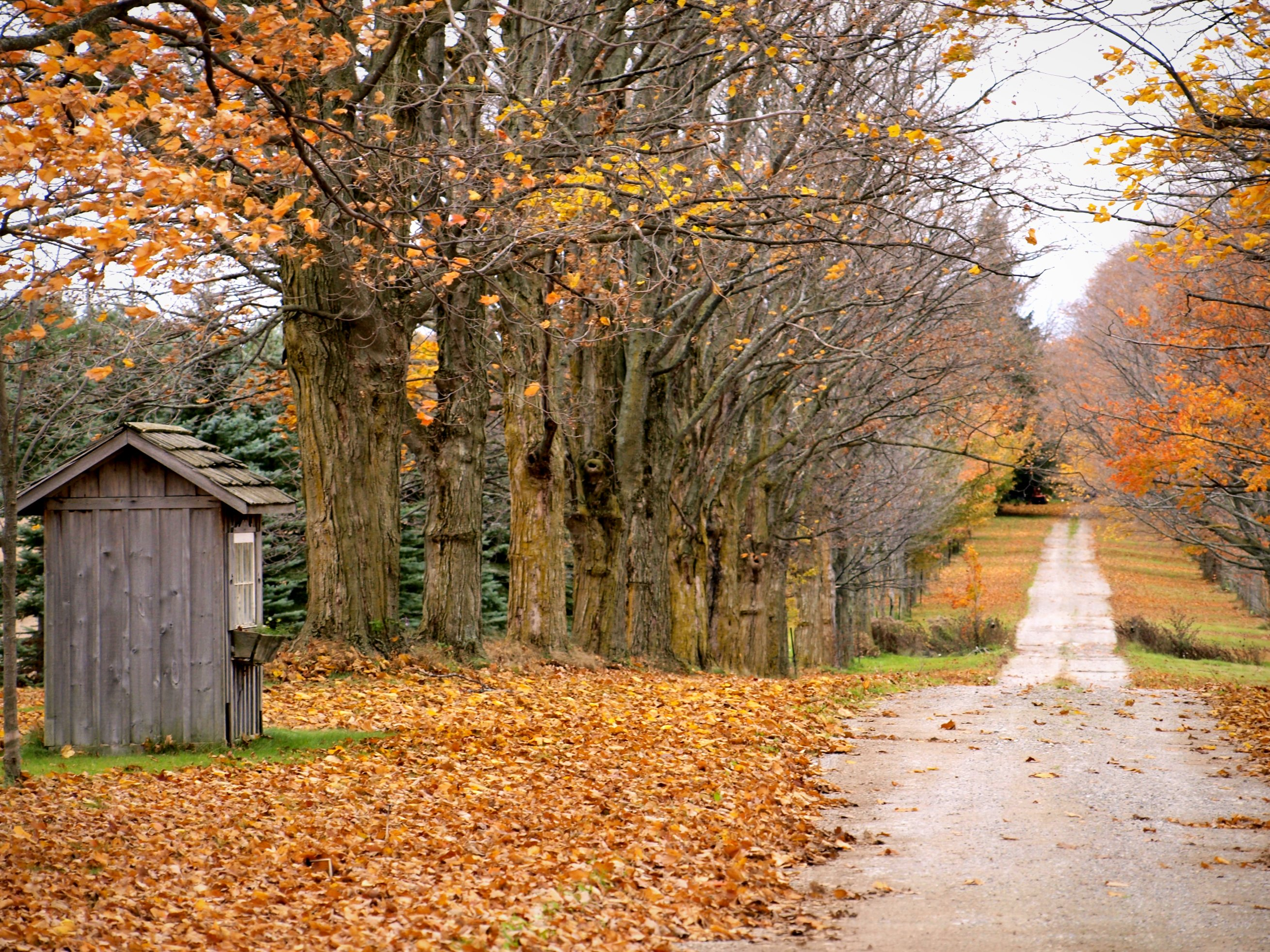 The leaves rustle as the crisp fall air blows past your ears. You look upwards with your eyes shut and there's so much to hear; The crows'a'crowing, the winds'a'blowing and the forecast calls for snow, but you continue on, not knowing where you are as you go with the flow. No worries and no thoughts will stop you in your tracks on you walk through the fallen leaves...